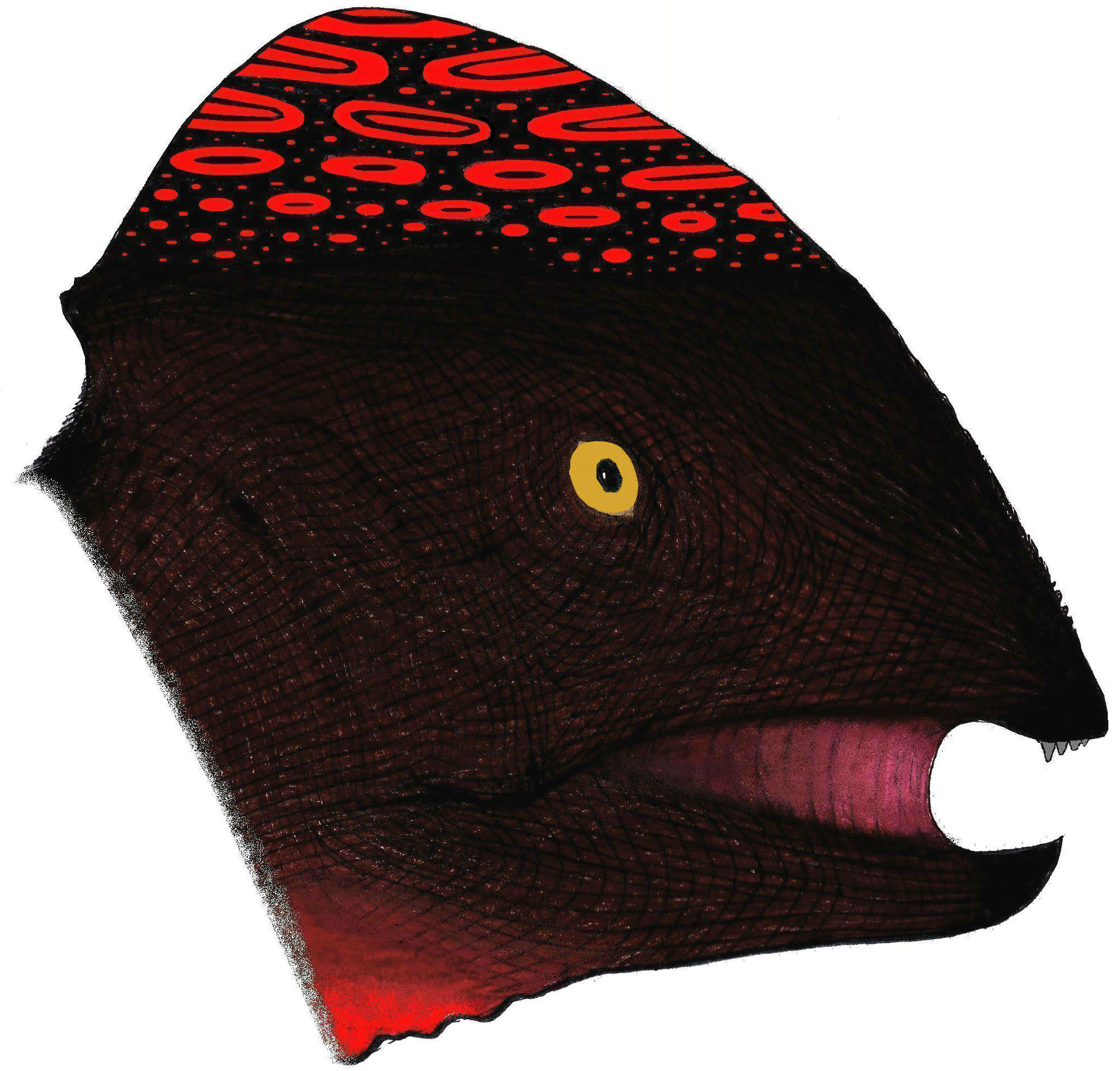 Head Reconstruction of Tylocephale